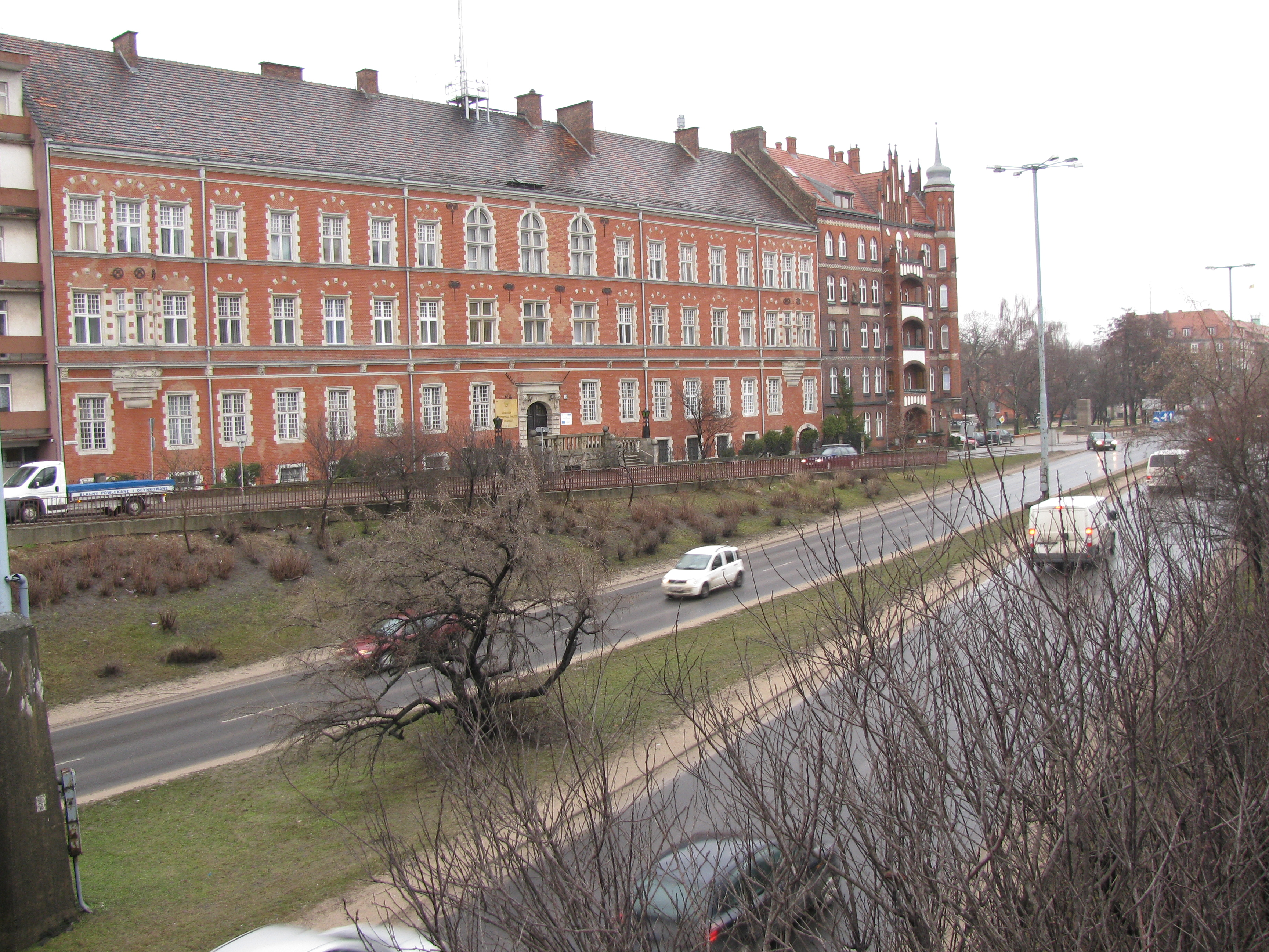 Okopowa Street in Gdańsk (Poland).